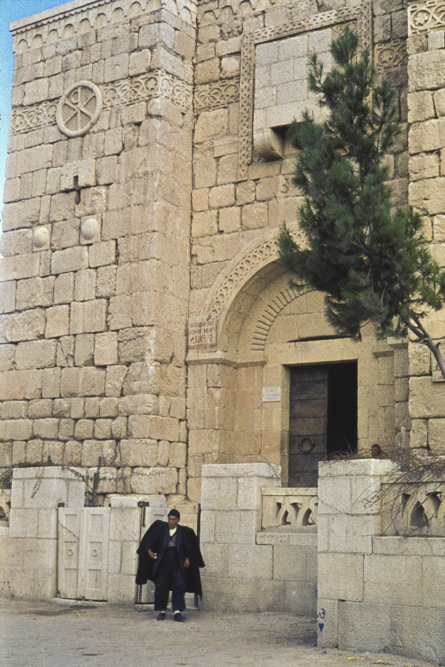 Chapel of Saint Paul — Damascus.